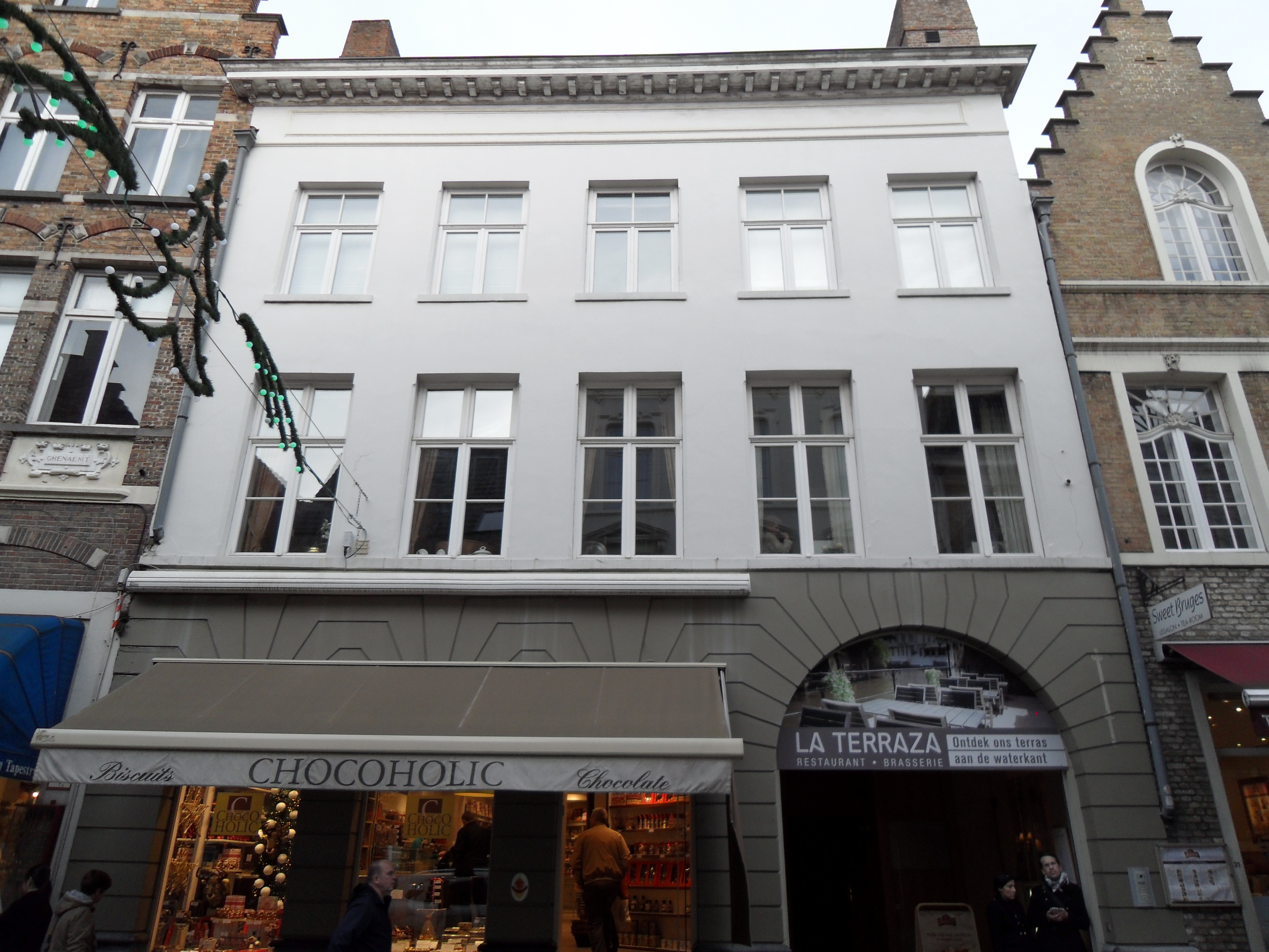 The old house in Bruges, Wollestraat, called 'Oude Steen', front